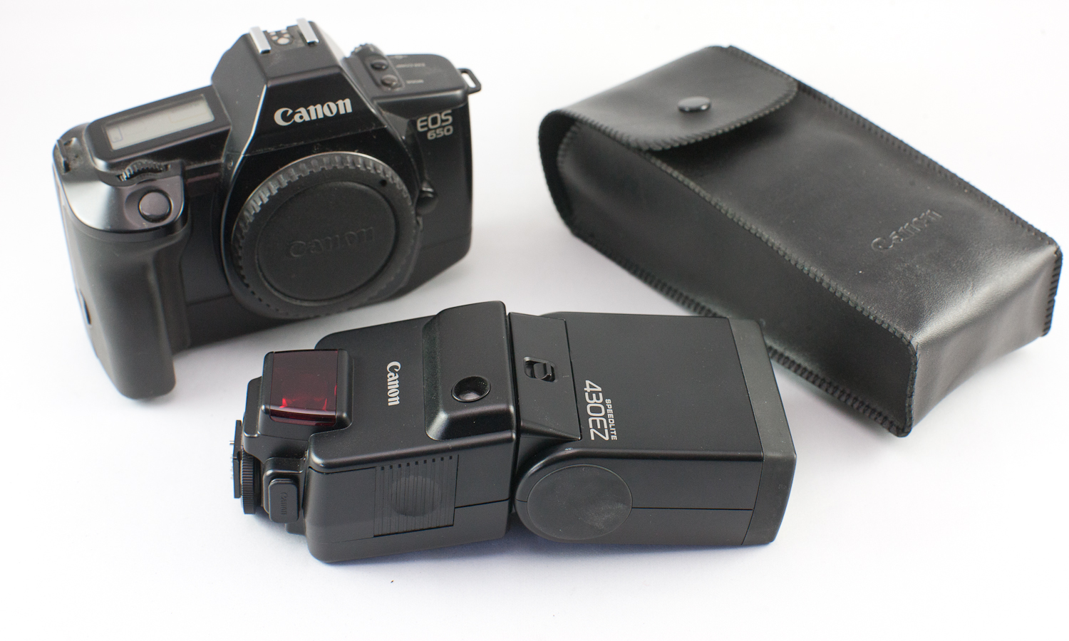 0577 Canon EOS 650 body and Speedlite 430EZ strobe